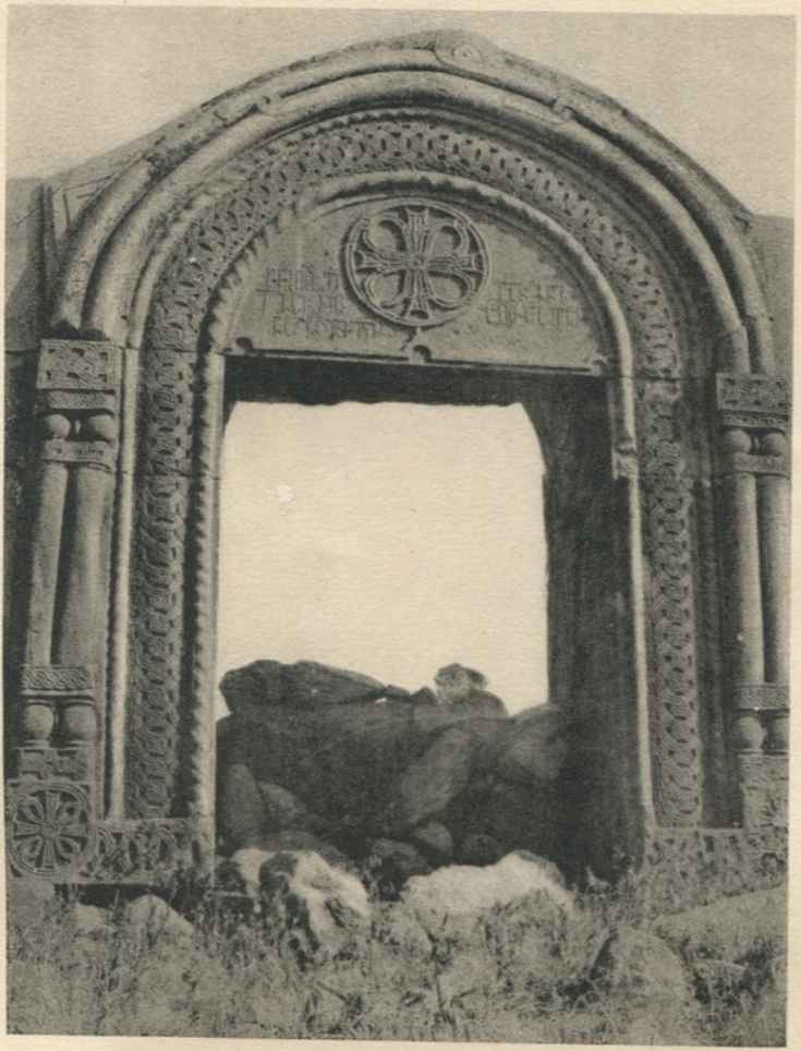 Karzameti Church